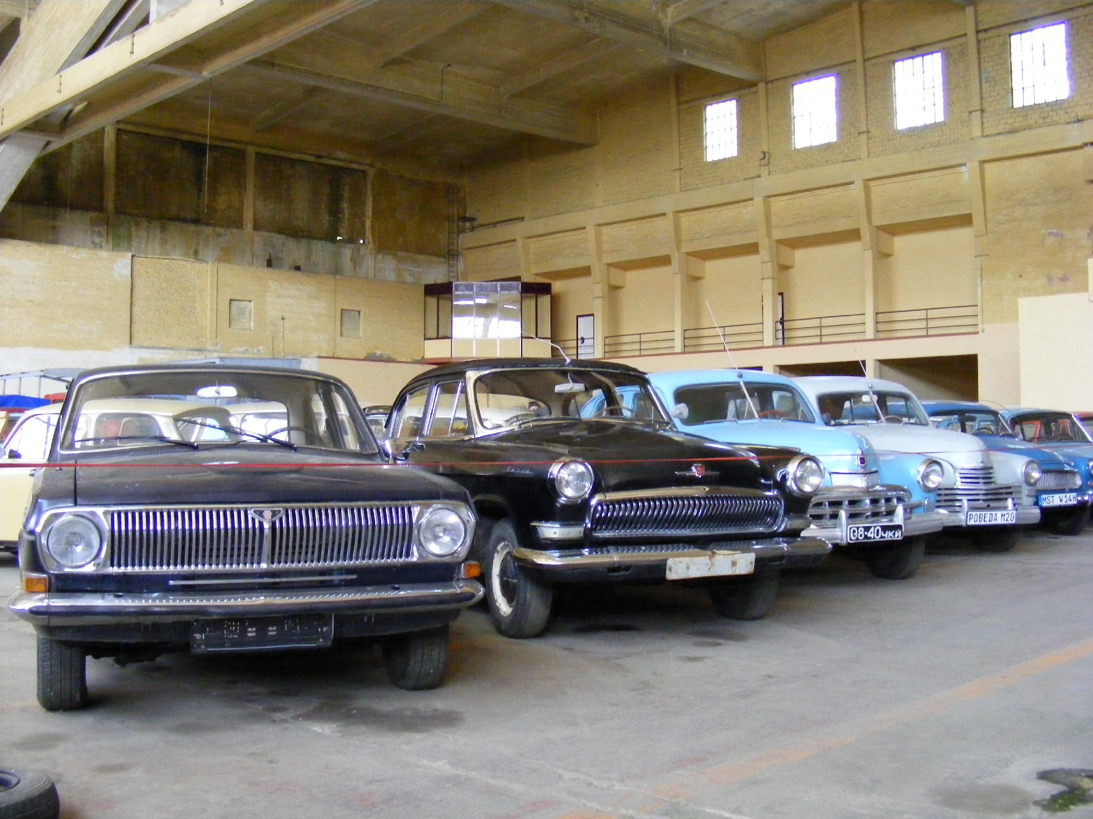 Russian limousines. Volga and Pobeda.